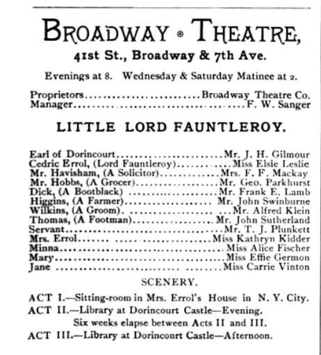 Advertisement in the December 8, 1888 issue of The Theatre for the play "Little Lord Fauntleroy" at the Broadway Theatre